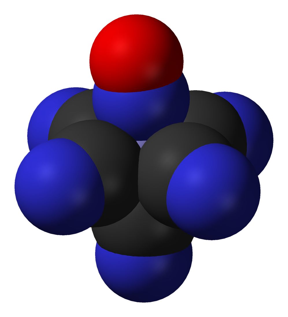 Space-filling model of the nitroprusside anion, [Fe(CN)5NO]2−, in the crystal structure of sodium nitroprusside, Na2[Fe(CN)5NO]. Neutron crystallographic data from Acta Cryst. (1989). C45, 839-841. Model constructed in CrystalMaker 8.1. Image generated in Accelrys DS Visualizer.